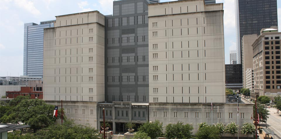 Federal Detention Center, Houston